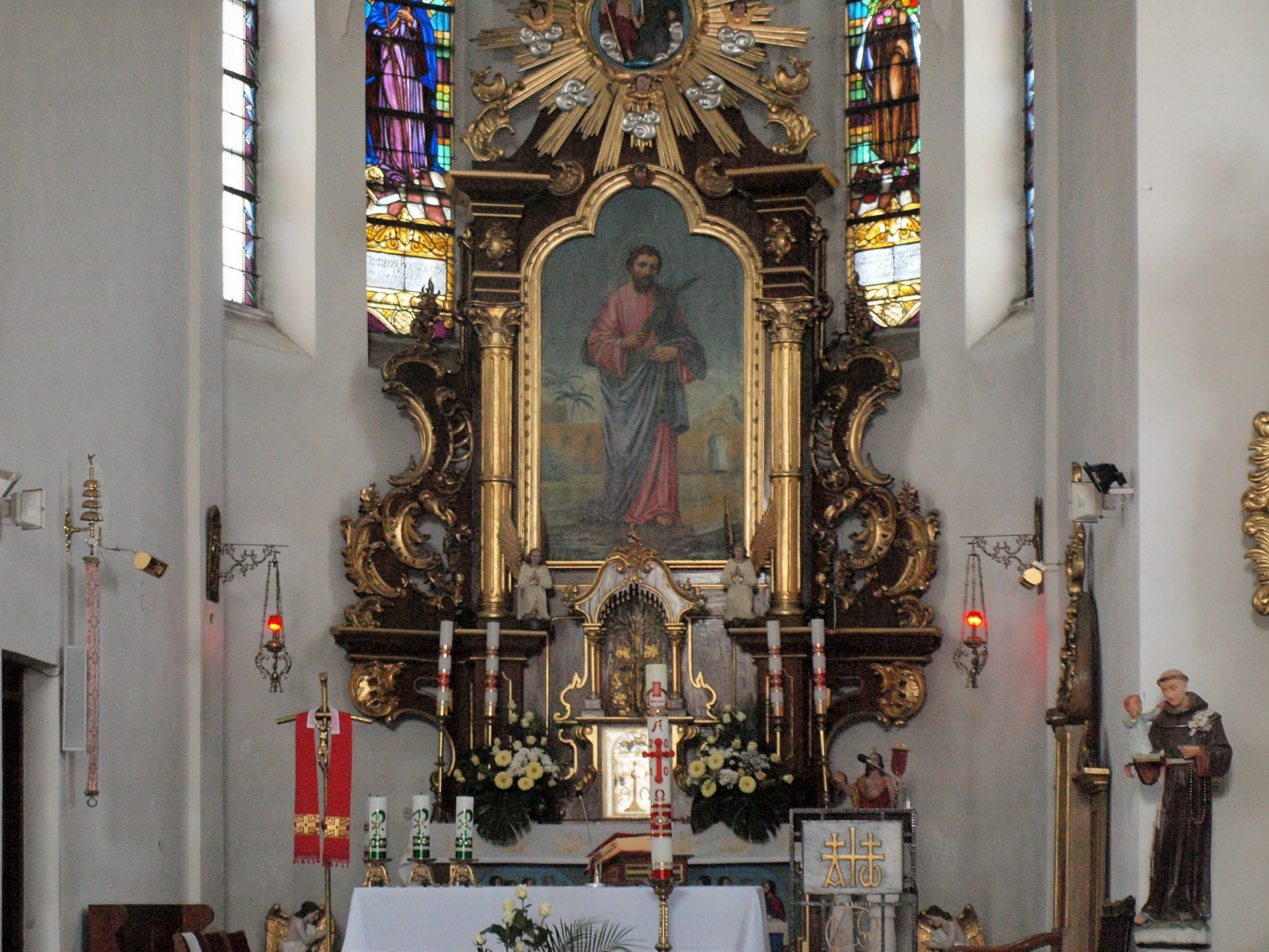 Samocice, parish church, painting of St. Bartholomew